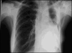 Lower left lobe of the lung has been removed.